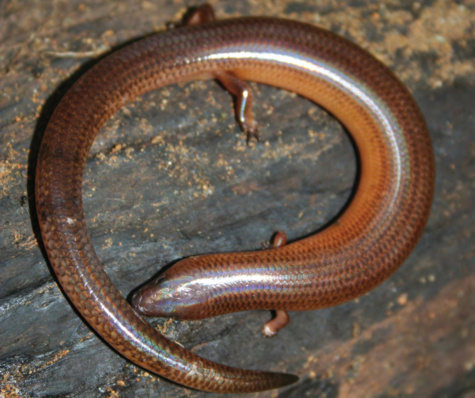 Brachymeles kadwa. Photo: MVW.